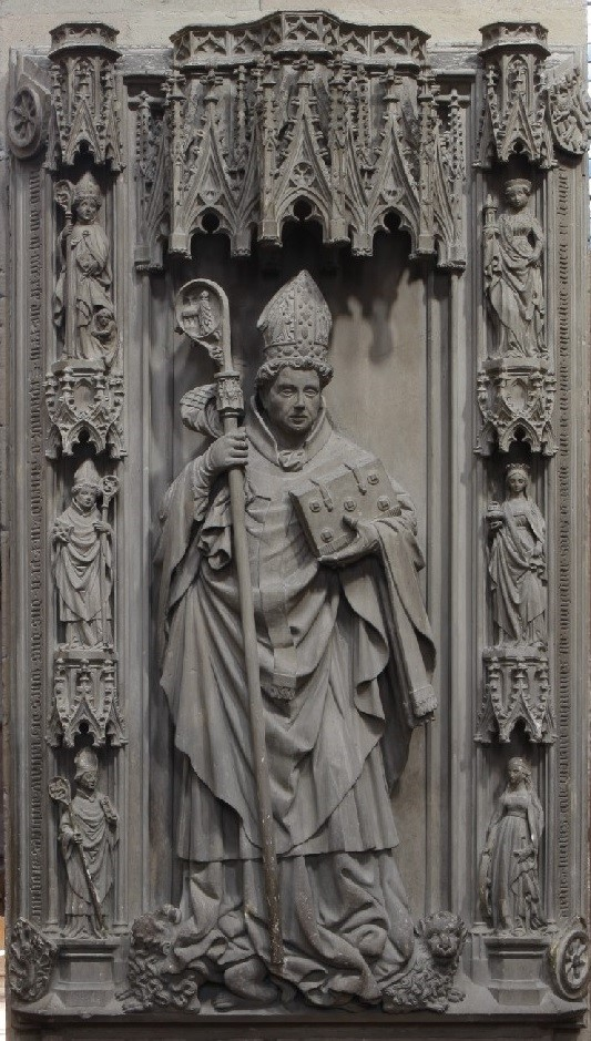 Epitaph of John II of Nassau-Wiesbaden archbishop of Mainz